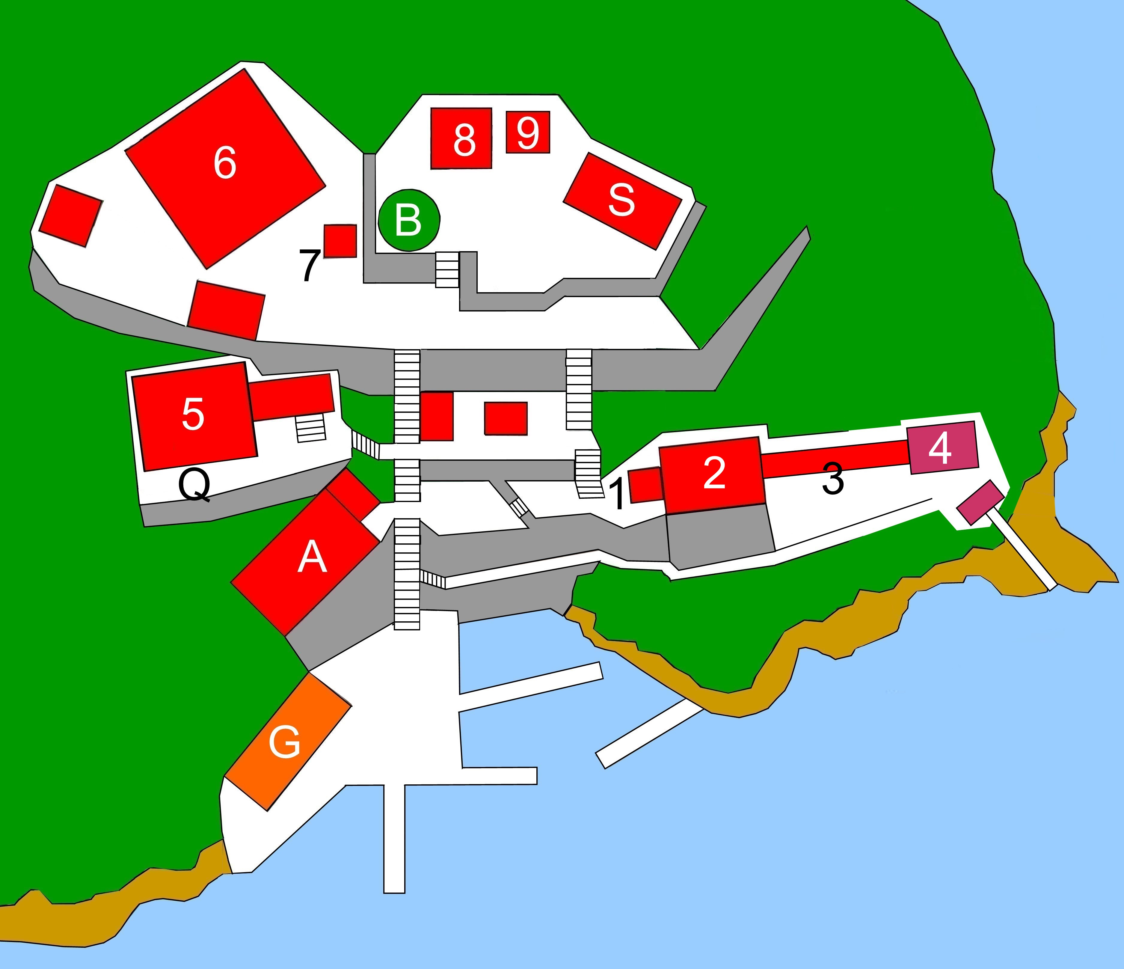 Layout of Hôgon-ji (Nagahama)